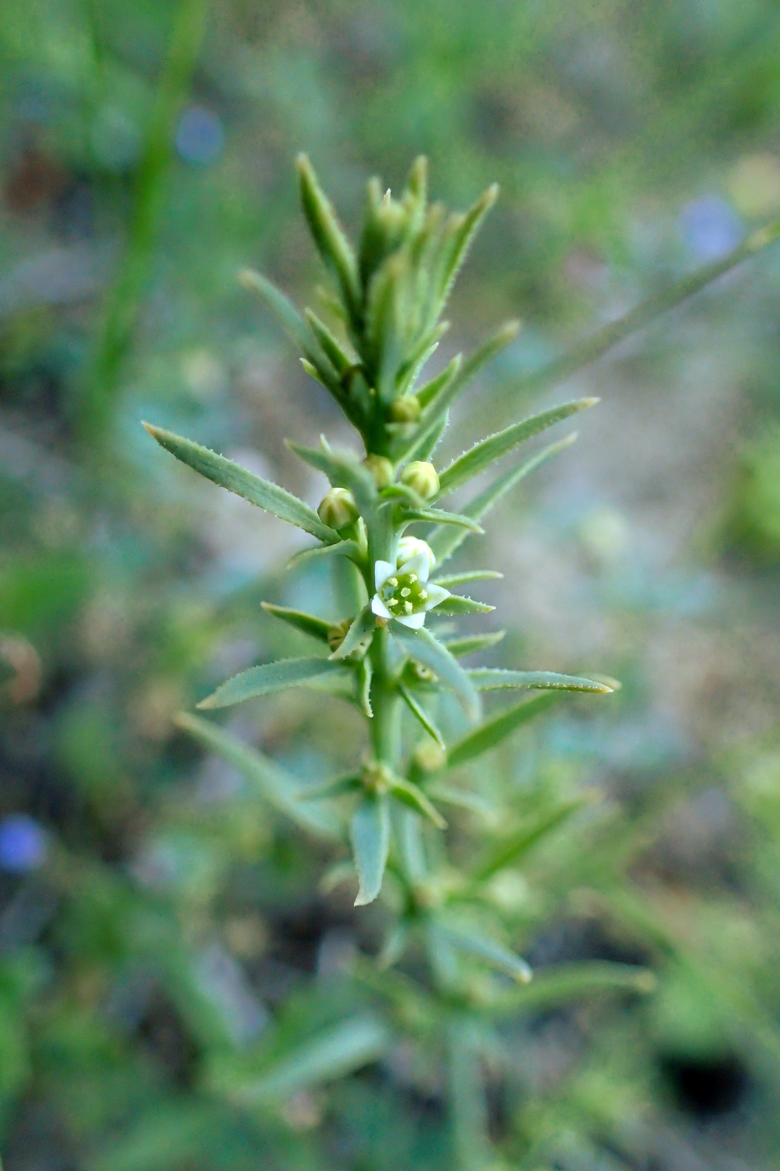 Thesium humile on the hill west from Pissouri Beach, cyprus